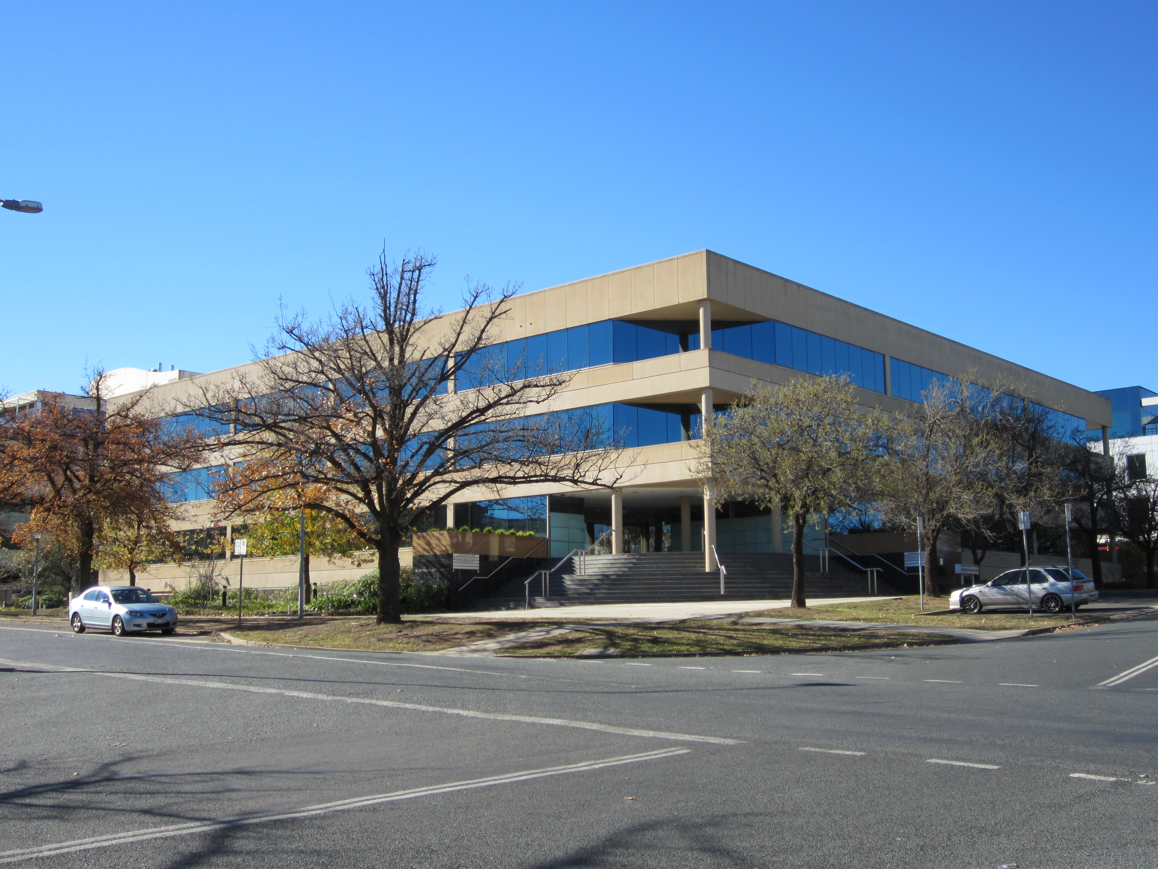 40 Macquarie Street in Barton, Australian Capital Territory during June 2012. At this time the building's tenants included the Australian Strategic Policy Institute and the Canberra office of the Boston Consulting Group.